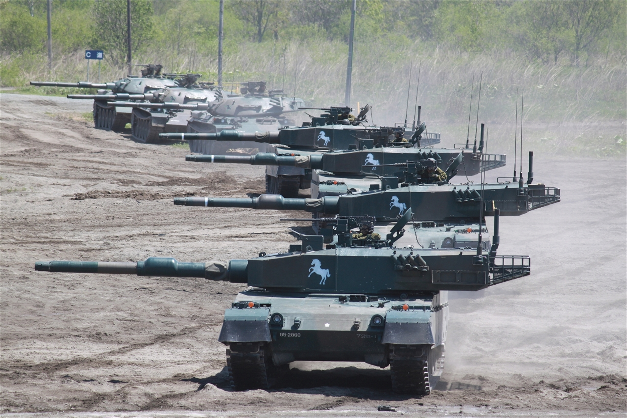 Title ９０式戦車 24.05.27 ７２ＴＫＲ・「先遣中隊の攻撃」訓練展示(24.5 (2)_R.jpg Album 装備 ９０式戦車（創立記念行事訓練展示・第７２戦車連隊）